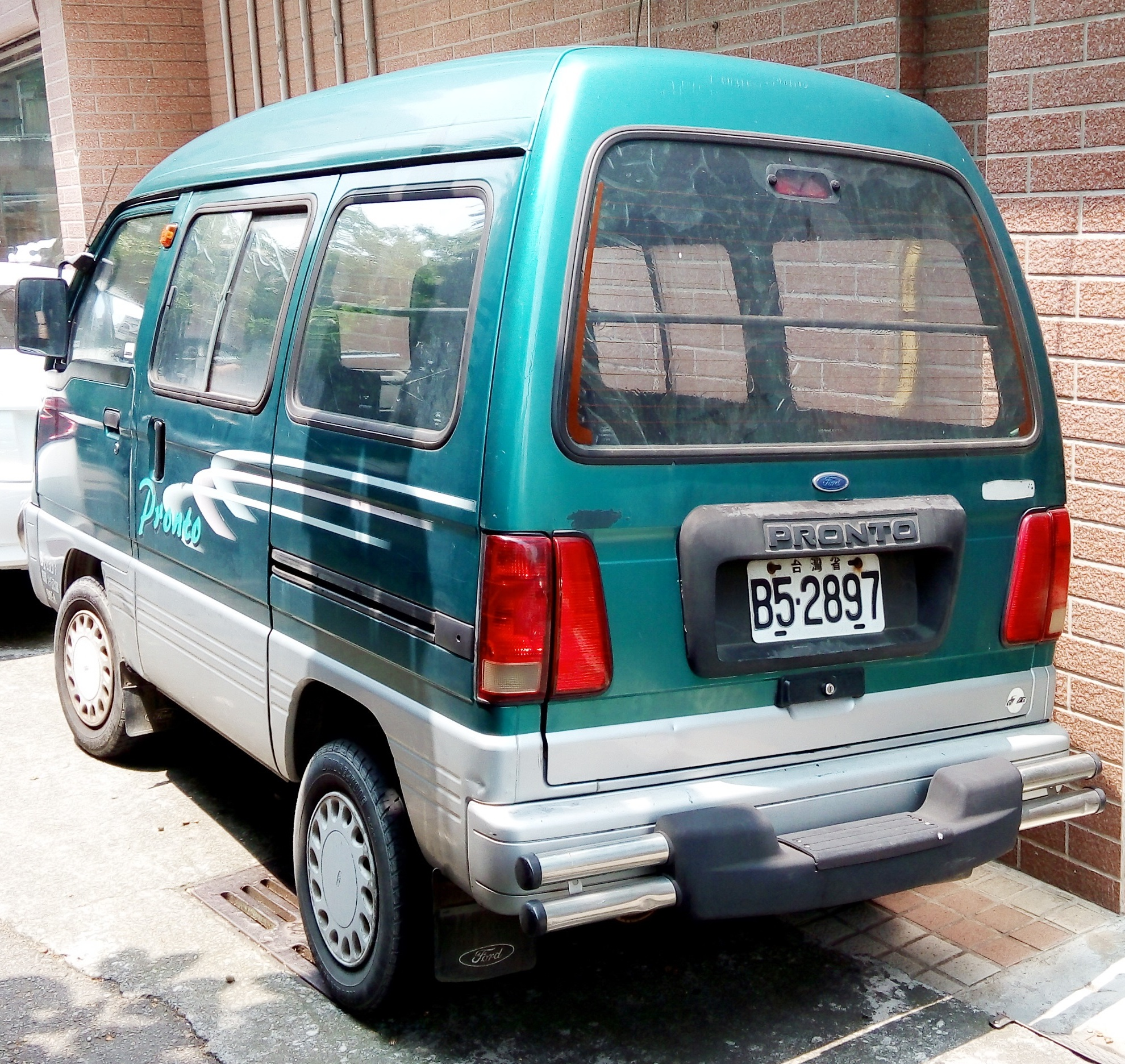 Rear view of the 2nd generation of Ford Pronto, photoed in Taiwan